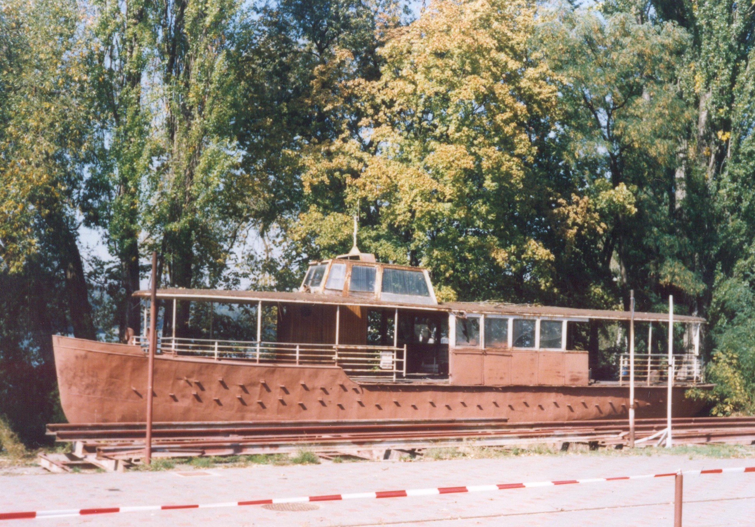 Ship Mír, Bystrc, Brno, Czech Republic